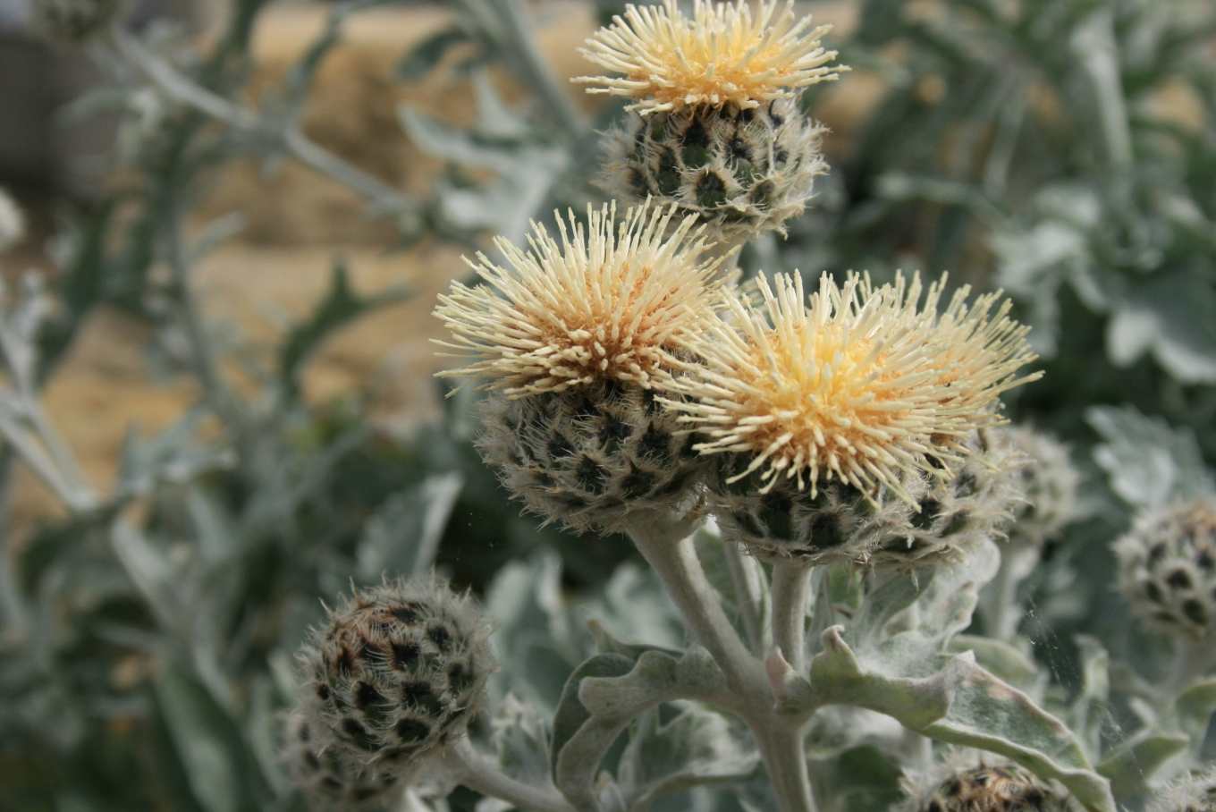 Centaurea clementei: Flower heads. Kew Gardens, London.